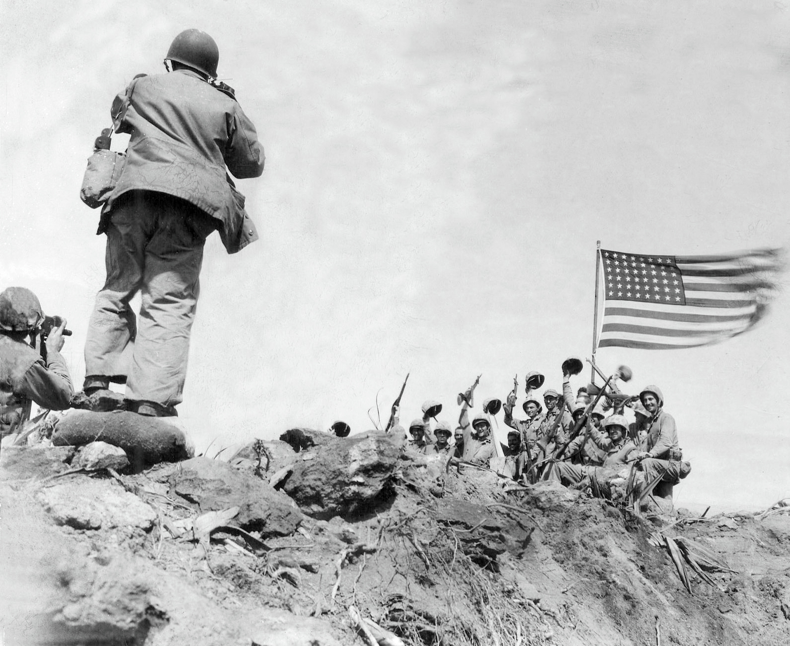 Photograph of (from left) Bill Genaust and Joe Rosenthal capturing the "Gung Ho" image of the U.S. Marines present at the second flag-raising on Iwo Jima